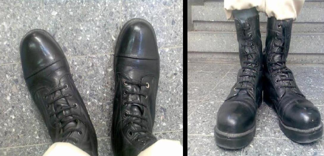 two images of well-polished (to the point of reflecting sunlight), IDF army boots, worn a friend.